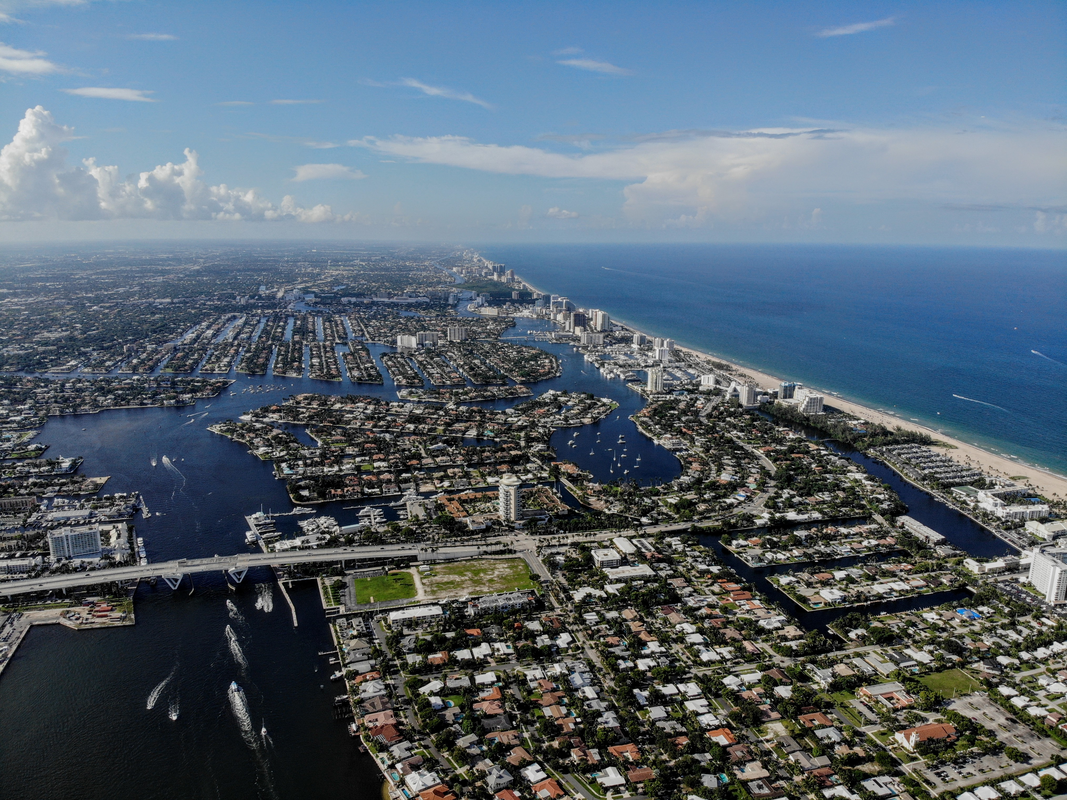 An aerial shot of Fort Lauderdale.